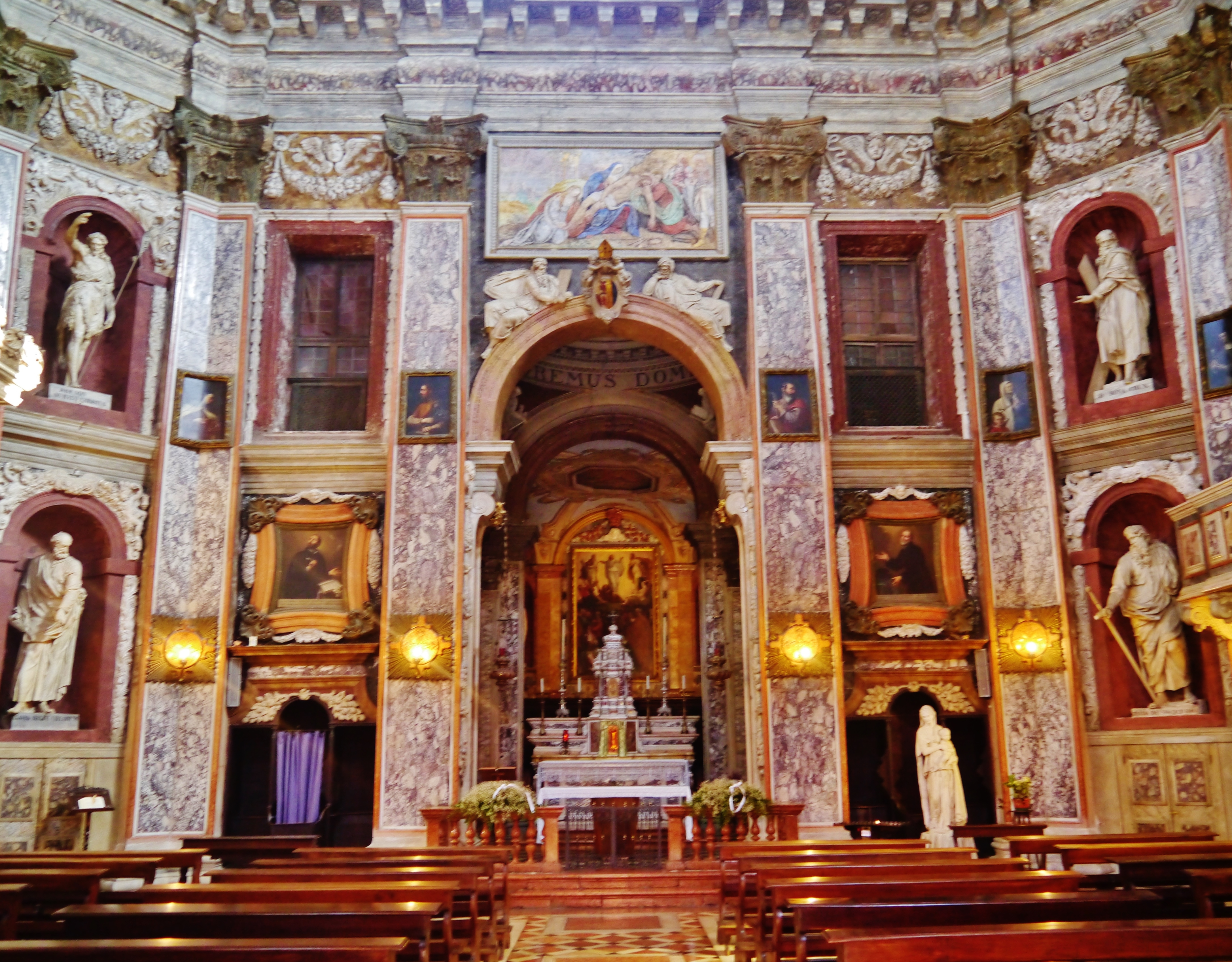 Interior of the Church of Sts. Simon the Zealot & Jude the Apostle (combined San Gaetano), Padua, Province of Padua, Region of Veneto, Italy